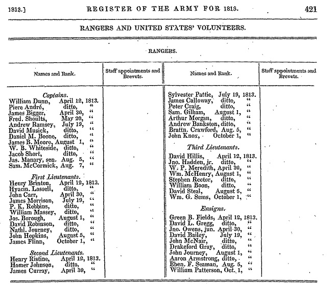 List of officers of United States Rangers 1813